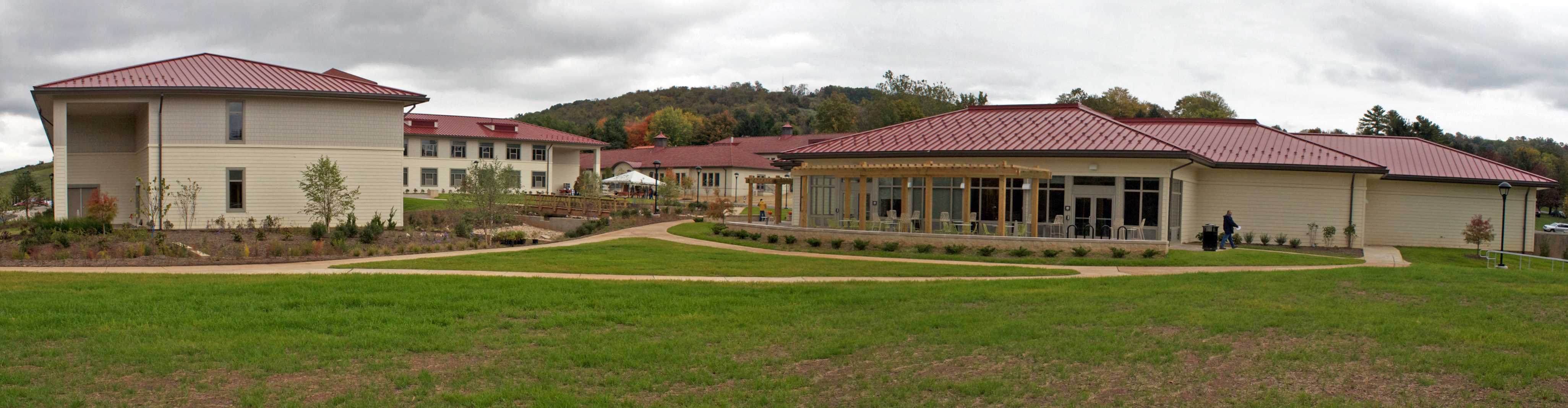 Panorama Smithsonian-Mason School of Conservation at the Smithsonian Conservation Biology Institute in Front Royal, VA